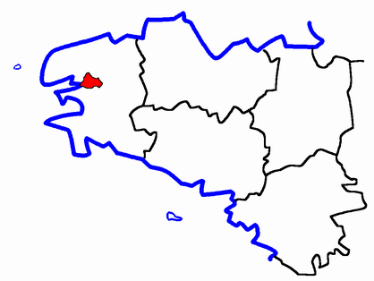 Description: Map for localisazion of cantons of Bretagne region in France Source: made by Hervé Tigier in april 2005 from another large map (published in 1990)